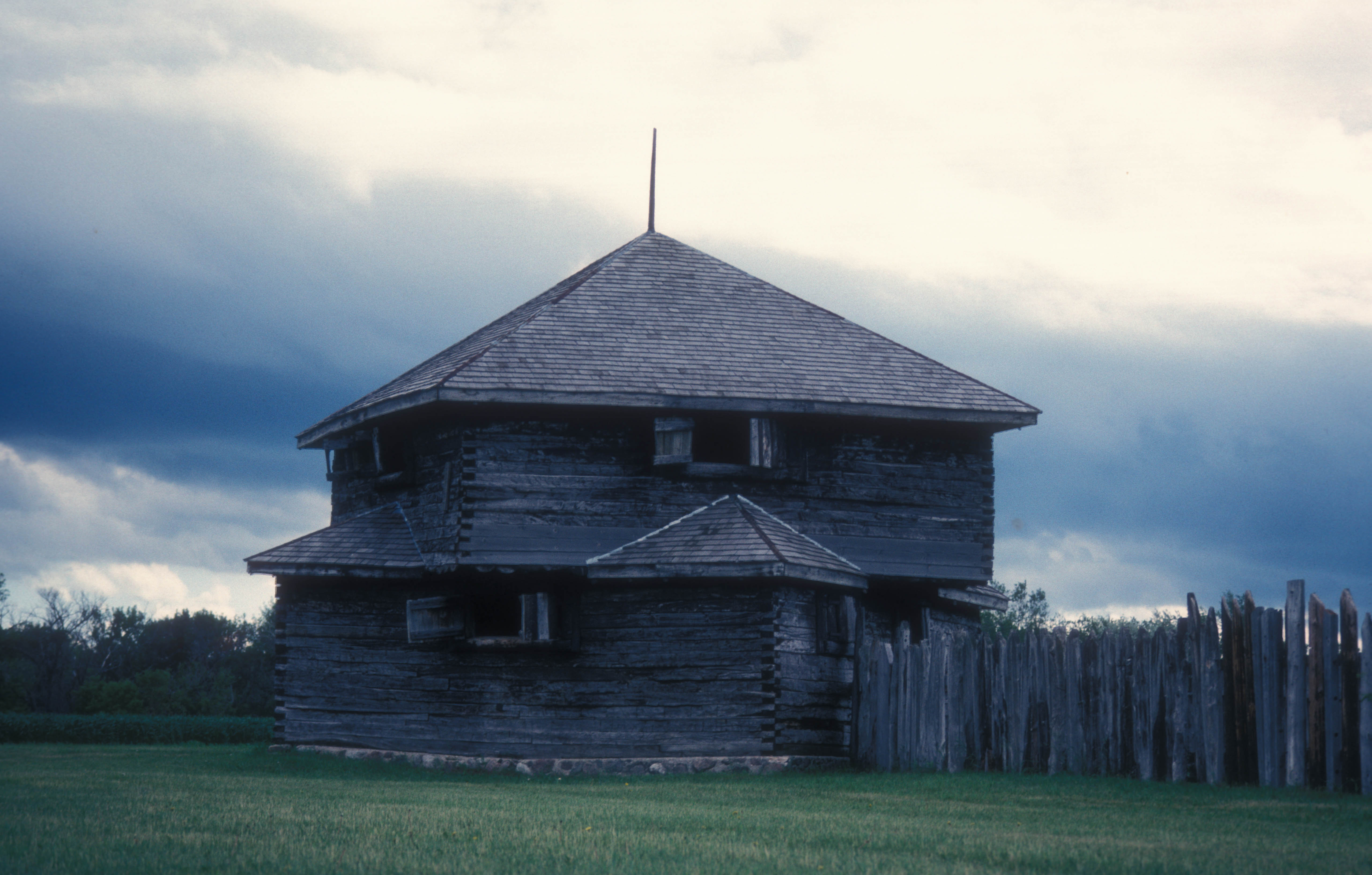 BUILT IN 1857 AT THE HEAD OF NAVIGATION ON THE RED RIVER TO PROTECT THE TRADE BETWEEN ST. PAUL, MN AND THE SETTLERS COMING INTO DAKOTA TERRITORY FROM MAINTOBA AND SETTLING IN THE PEMBINA VALLEY